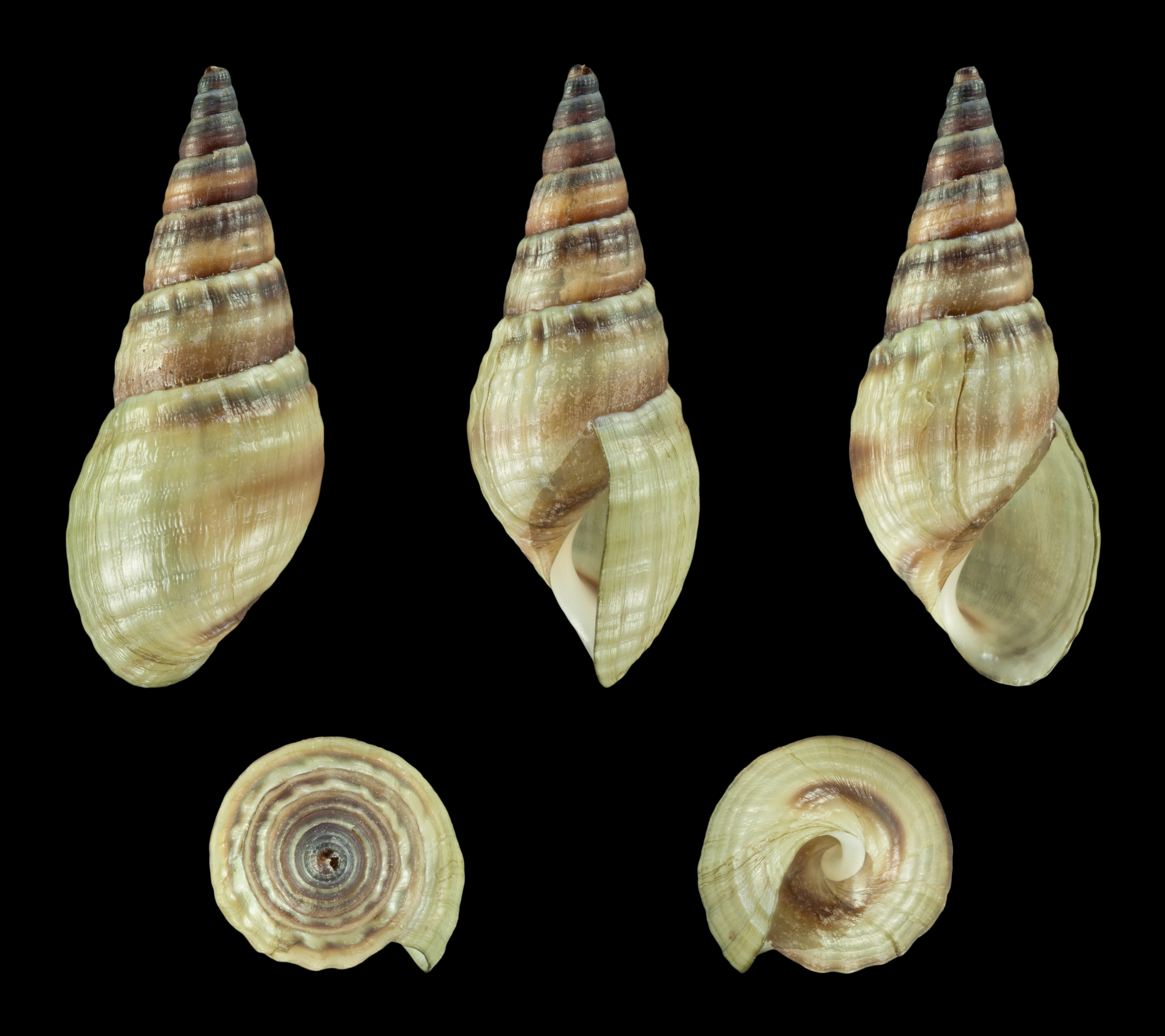 Tarebia granifera (Lamarck, 1816), Quilted Melania, smooth form; length 2.4 cm; Originating from Balicasag Island, Probolinggo,East Java,Indonesia; Shell of own collection, therefore not geocoded.